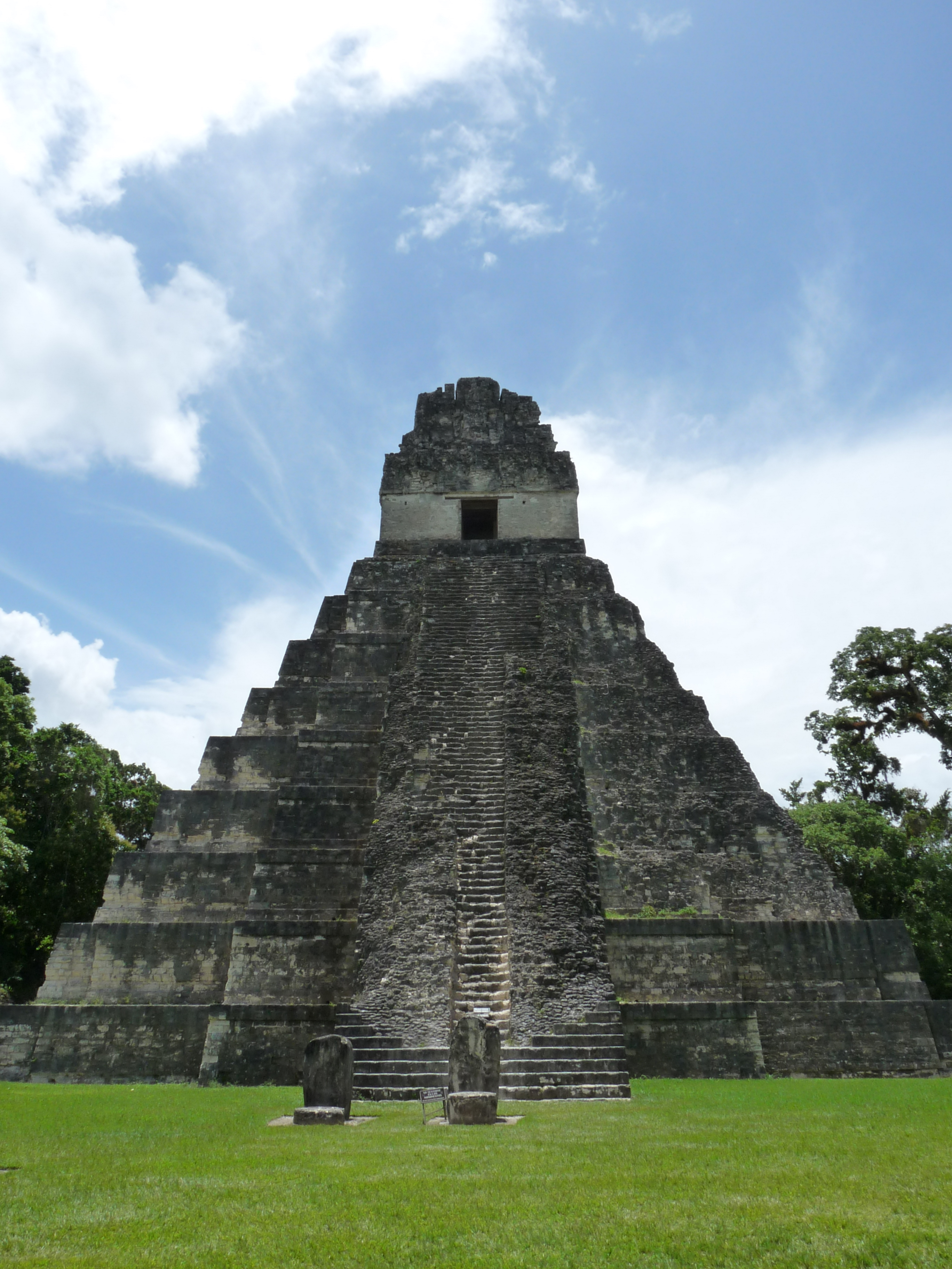 Temple I of the archaeological zone of Tikal, Guatemala.